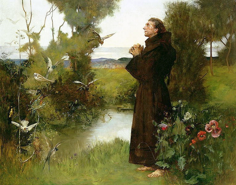 St Francis